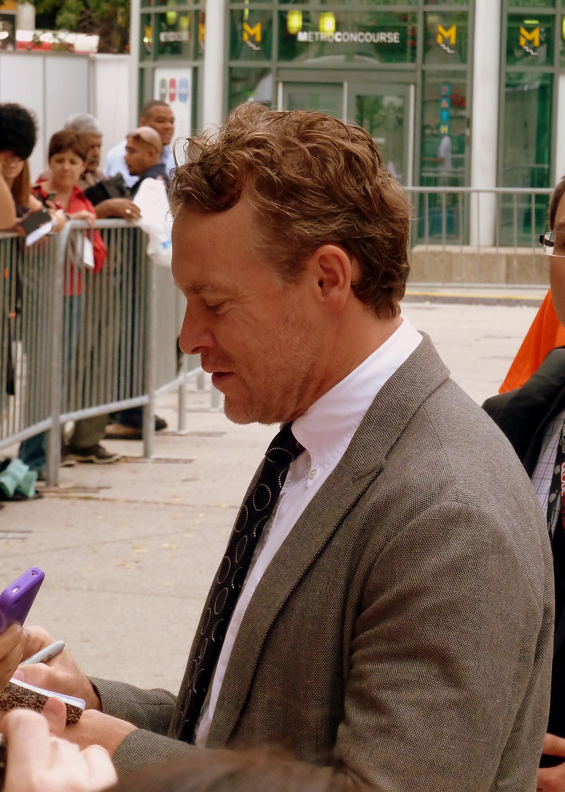 Tate Donovan at the premiere of Argo, Toronto Film Festival 2012